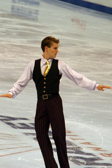 Scott Smith at the 2006 Skate America.